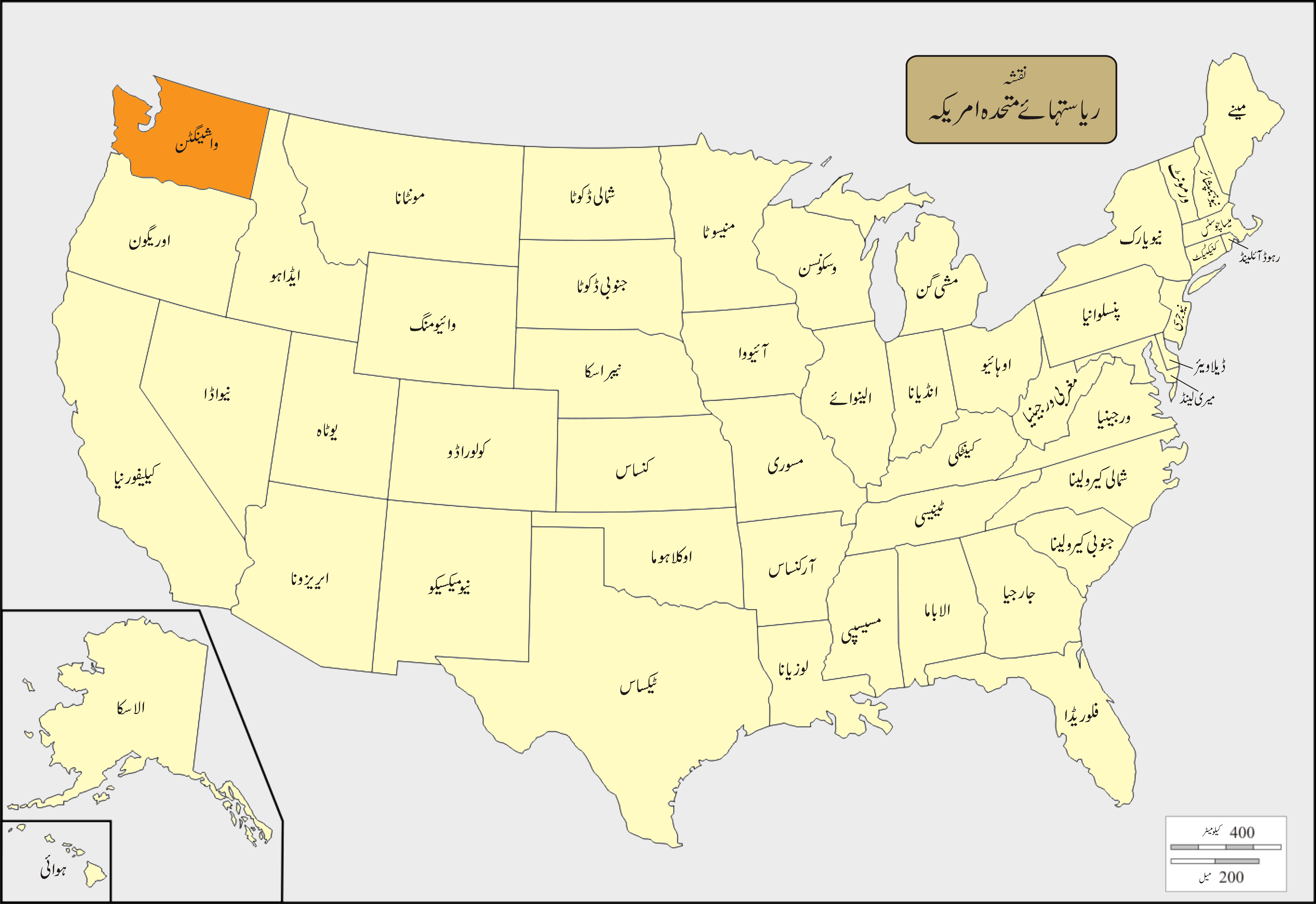 USA Names Washington